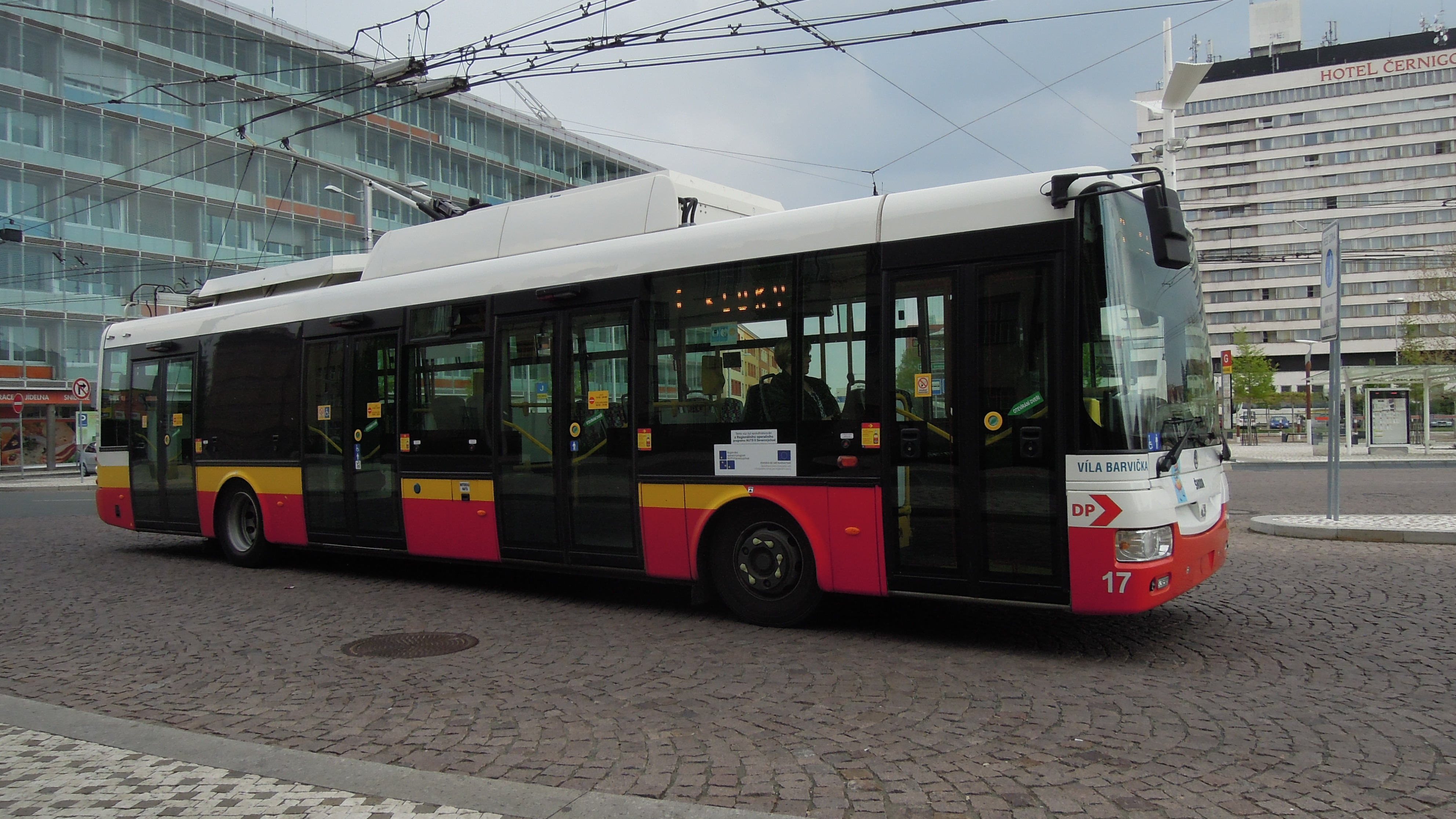 Trolleybus Škoda 30Tr SOR of Dopravní podnik města Hradce Králové in Hradec Králové , Hradec Králové Region, Czech Republic